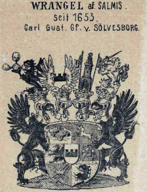 Coat of arms of the Counts of Wrangel of Salmis family, since 1653, Carl Gustaf Count of Sölvesborg.